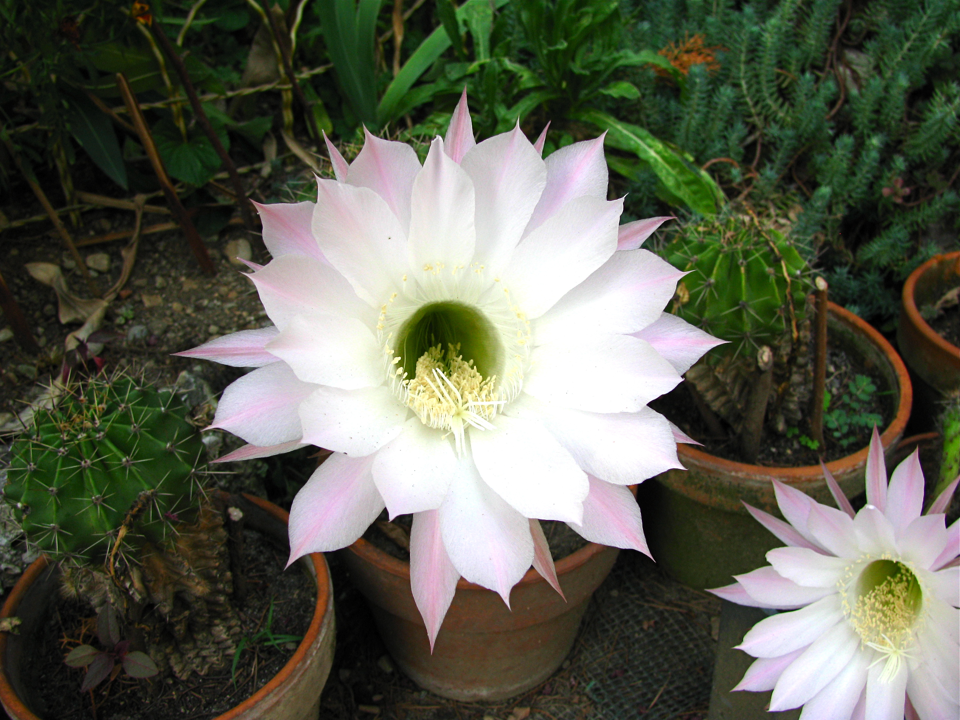 Cactus Flower ( Blooming Echinopsis )